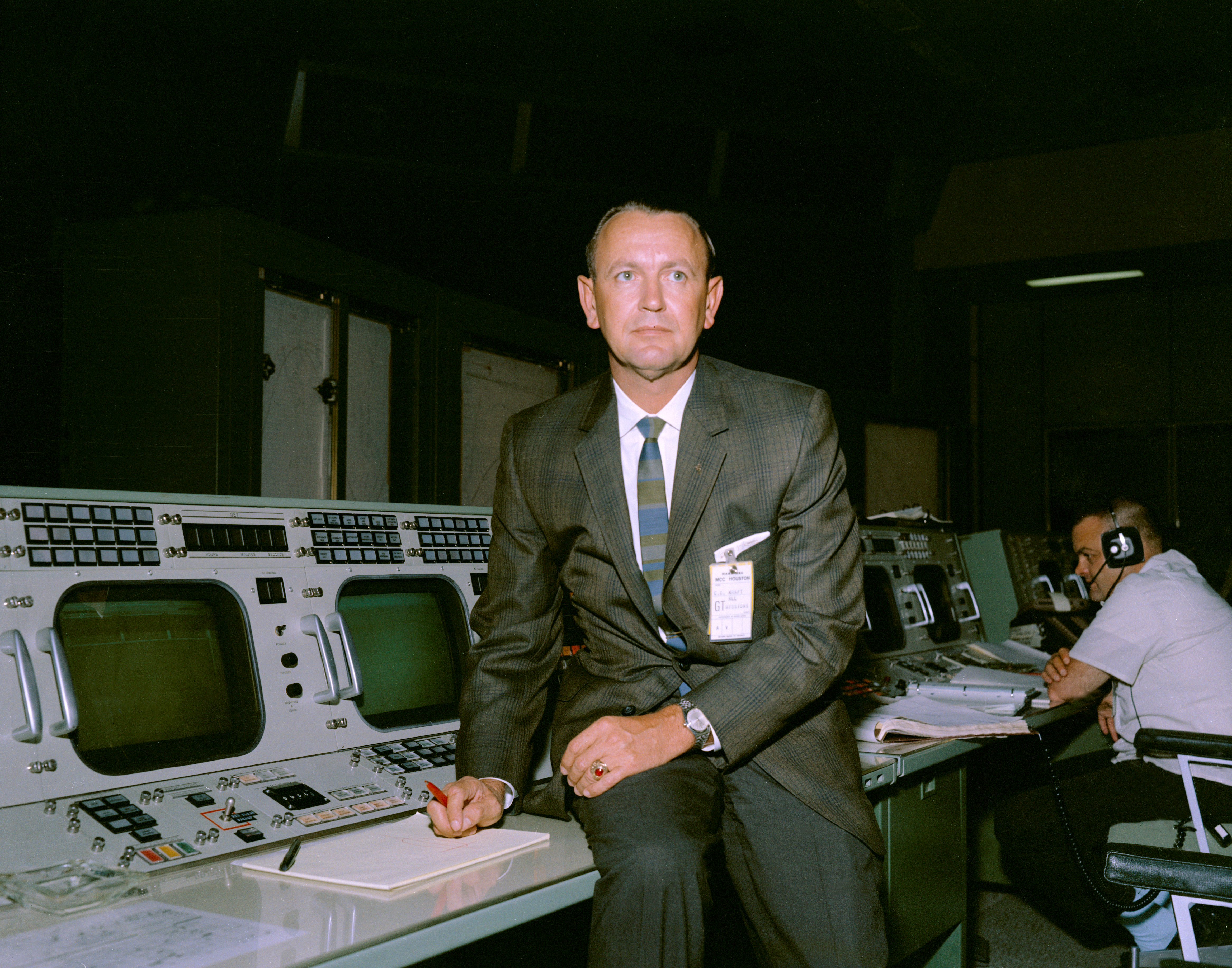 Dr. Christopher C. Kraft, Jr. is seen at a console in the Mission Control Center during Gemini-Titan V flight simulation. This console is actually the BOOSTER console in the front row of the MOCR, despite the caption stating that it was the Flight Director console, which was located in the third row.